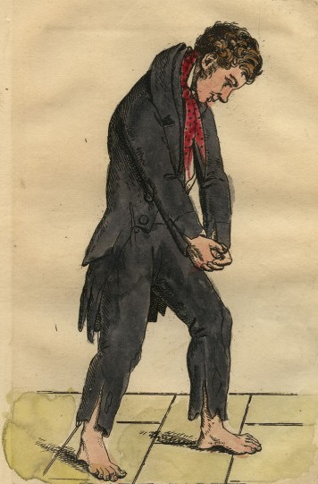 "Not any of the horrid deeds of Burke and Hare aroused in the community of Edinburgh greater sympathy with the victim or a more vehement desire for vengeance on the murderers than did the slaying of James Wilson. The Scottish people have ever regarded with especial tenderness those unhappy beings, called by our custom "innocents", upon whom, though adult, an inscrutable Providence has seen fit to lay the blight of intellectual infancy; and any offence done to such helpless folk was properly deemed a crime as heinous as one wrought against an actual child." -- W Roughhead (ed.), Burke And Hare, Notable British Trials Series, Wm Hodge & Co, 1921